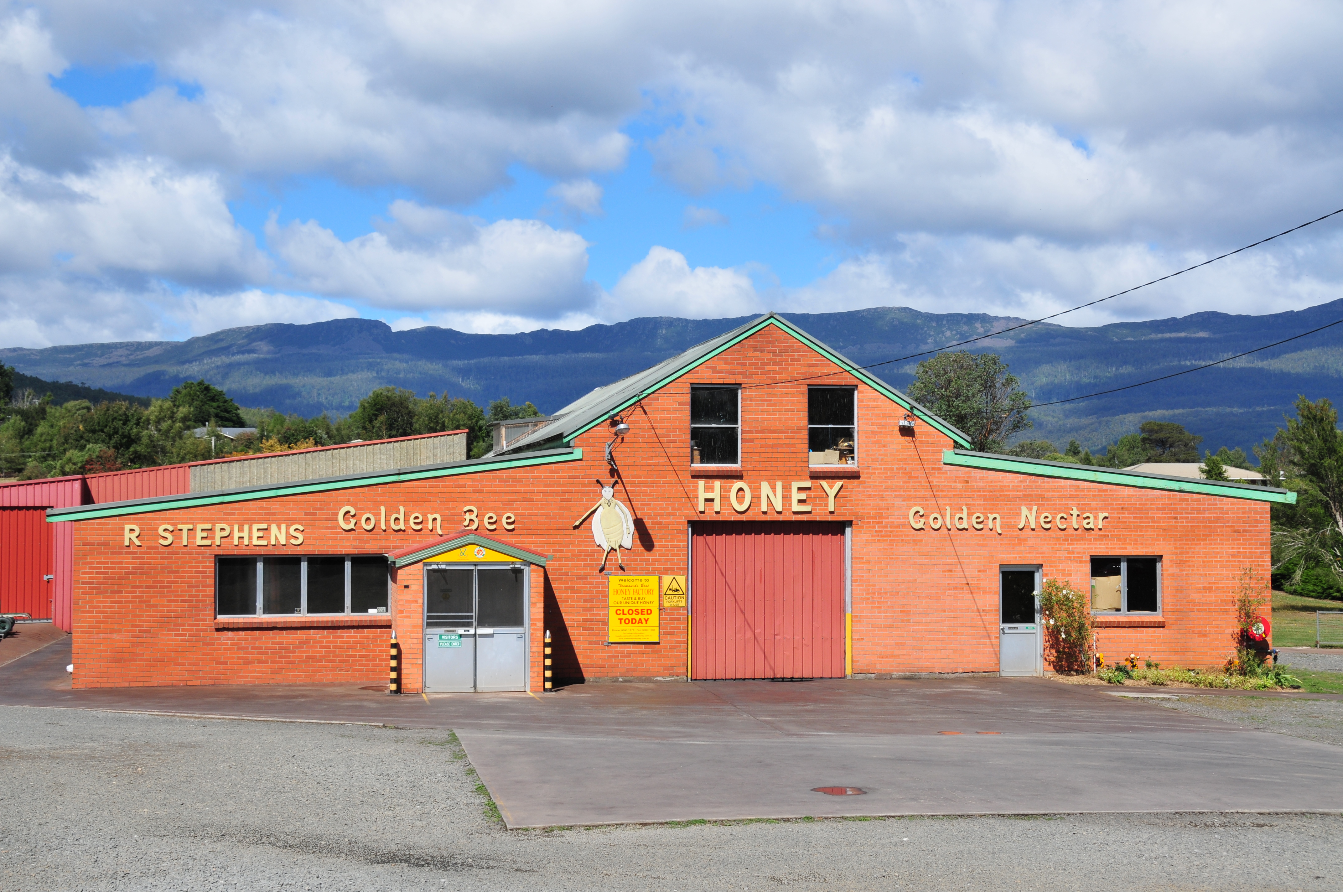 R Stephens Honey Factory, Mole Creek, Tasmania, Australia